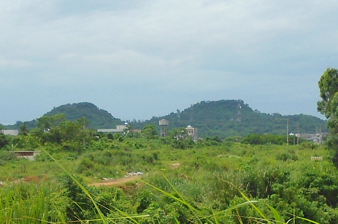 Leiqiong Global Geopark, Hainan Province, China